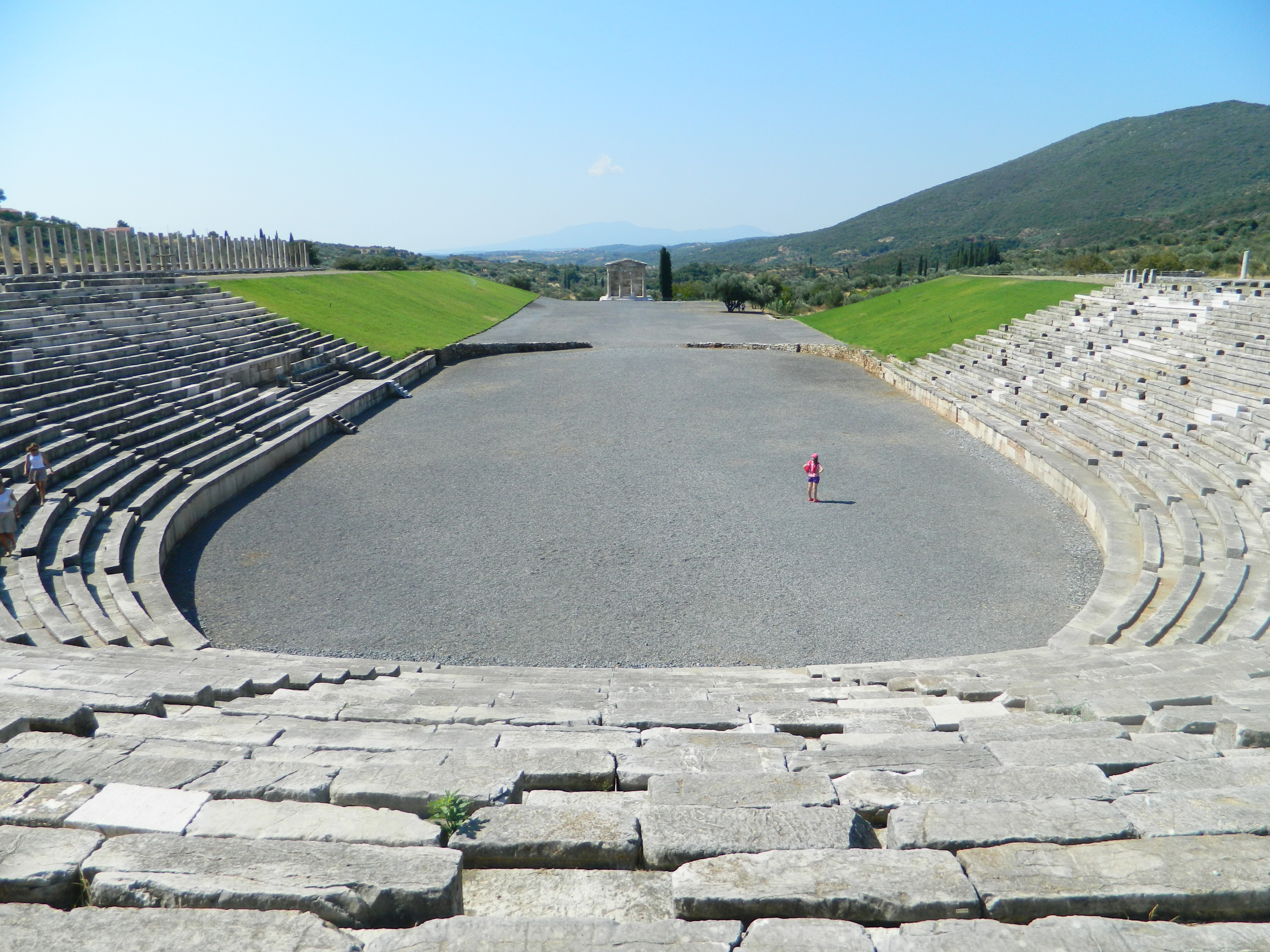 Antiquité